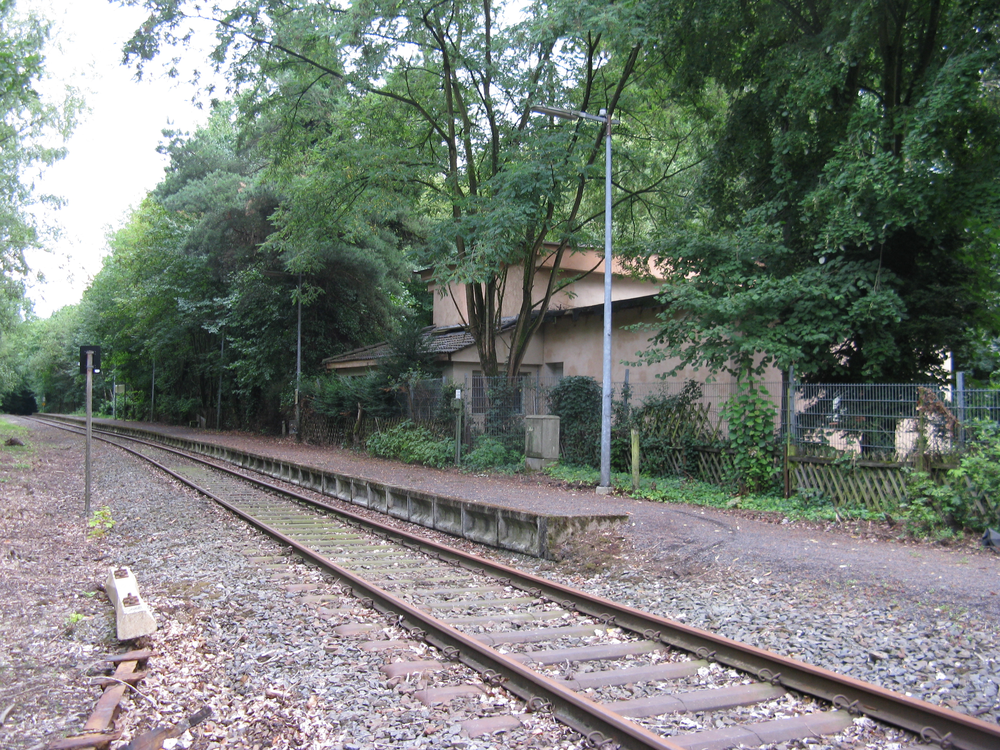 Railway stop Chausseehaus Wiesbaden